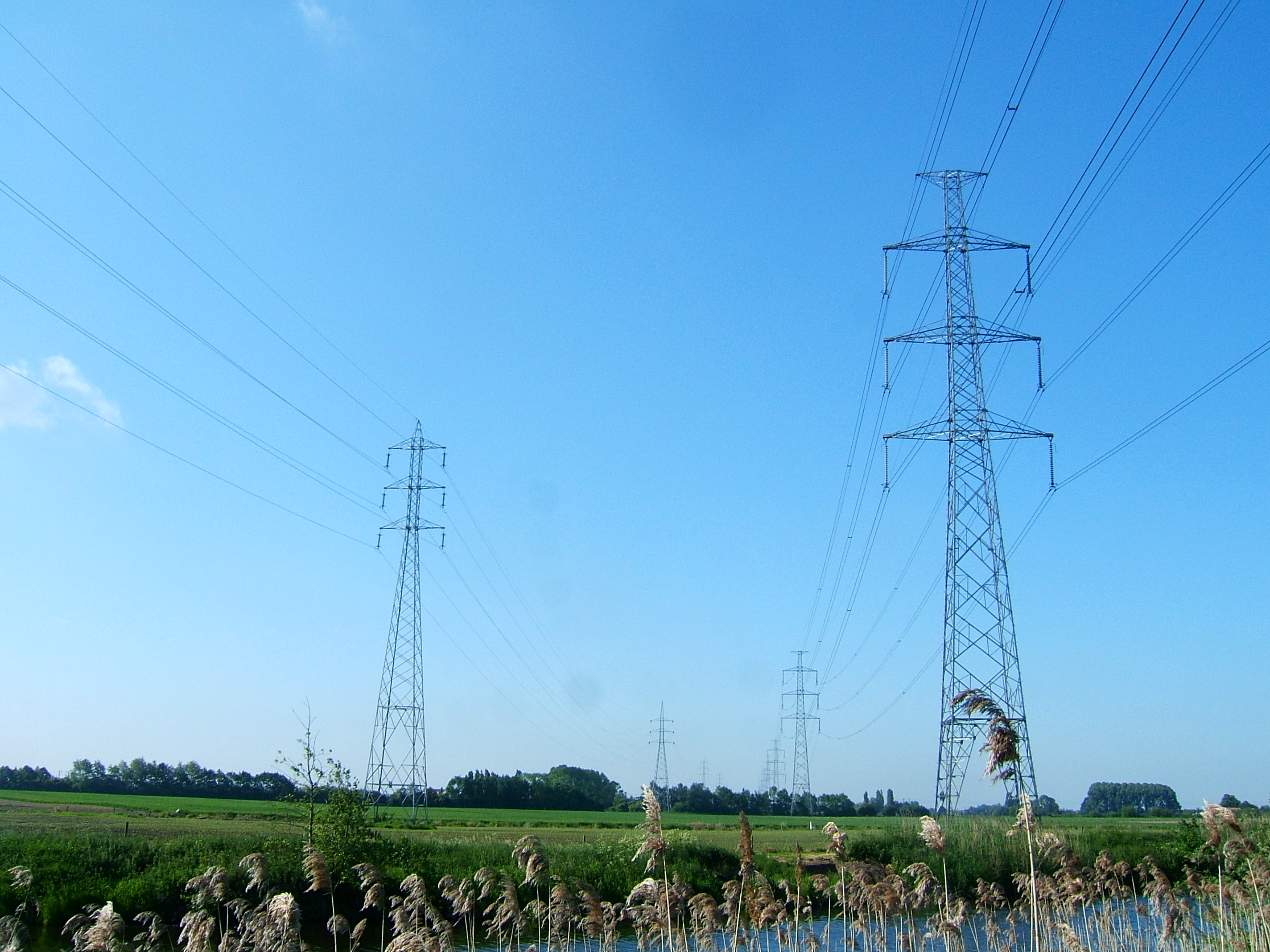 Power lines (150 kV, 380 kV) in Zulte near Deinze, Belgium